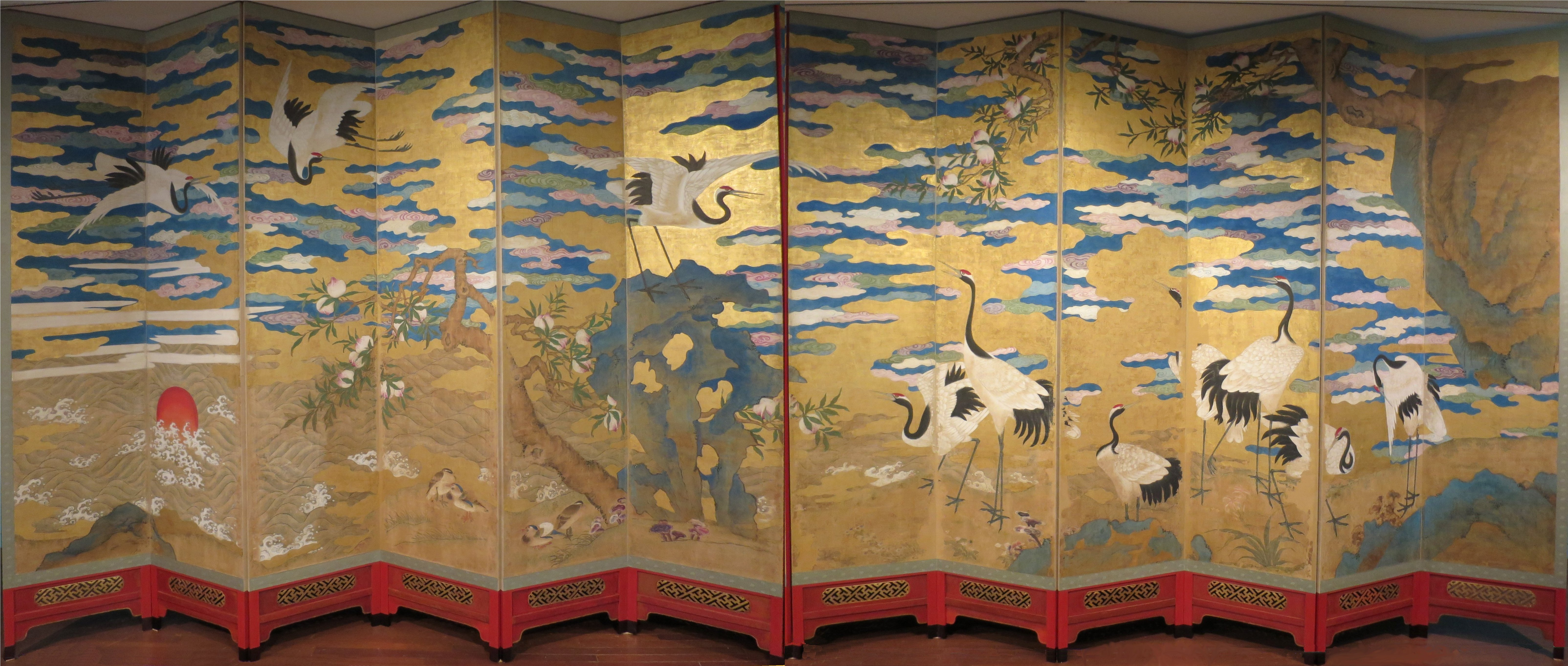 Pair of six-fold screens, ink, color and gold on silk